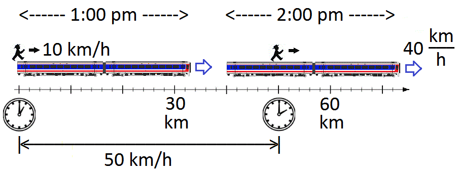 A man walking 10 km/hr on a train moving at 40 km/hr will walk 50 km in one hour